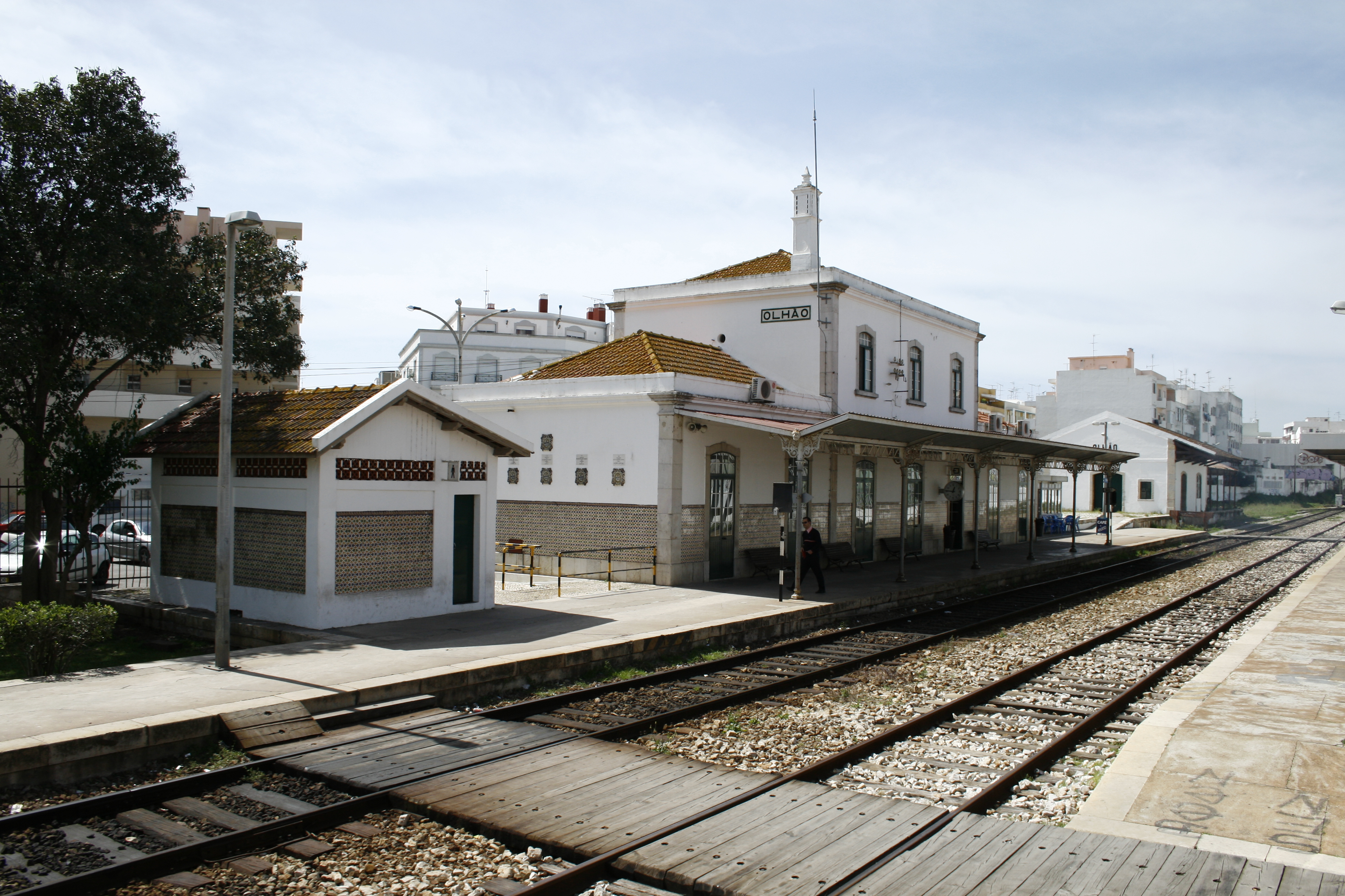 Olhão Train Station, in the Algarve Line, in Portugal.